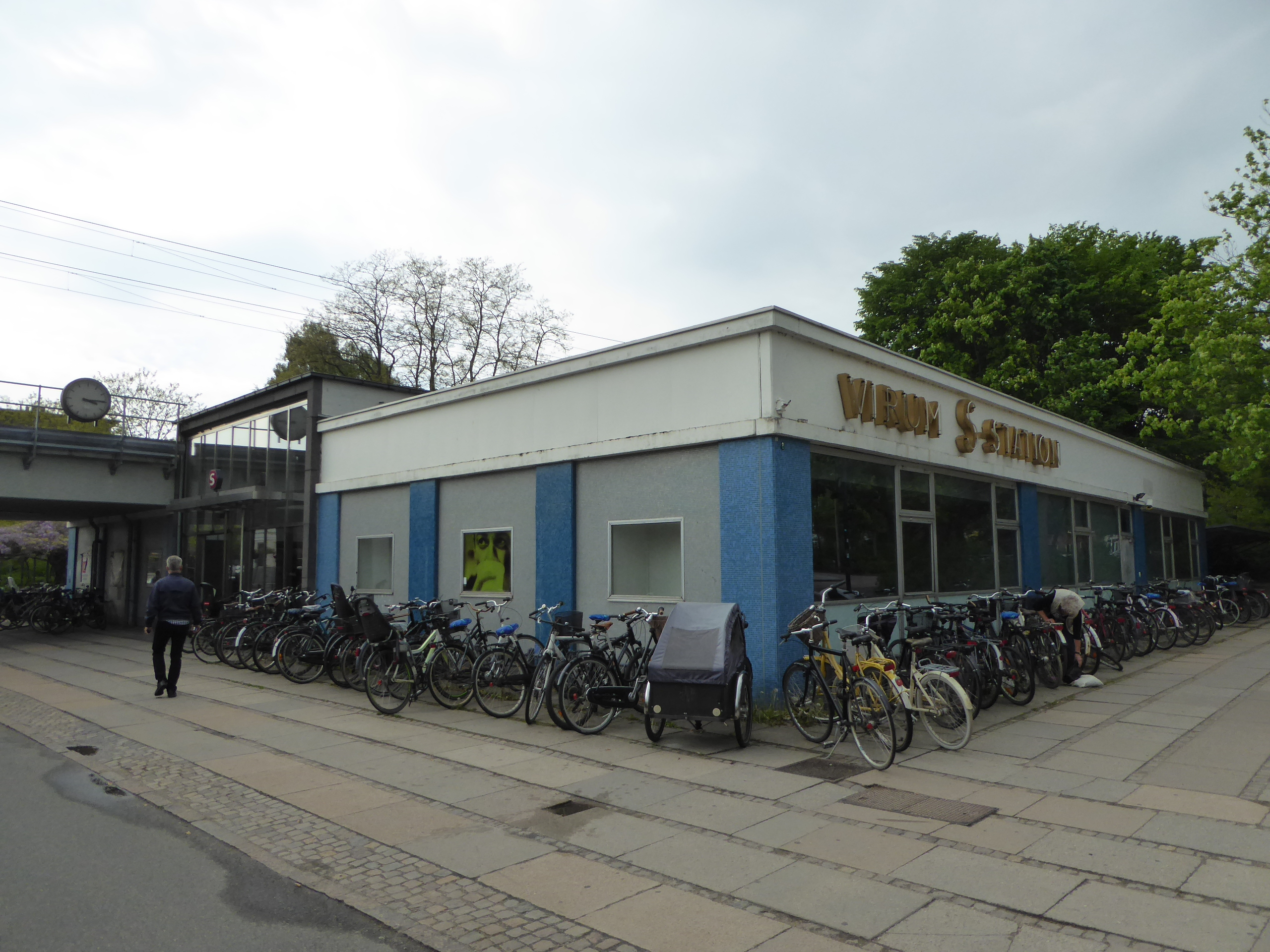 Virum Station, an S-train station in northern Copenhagen.